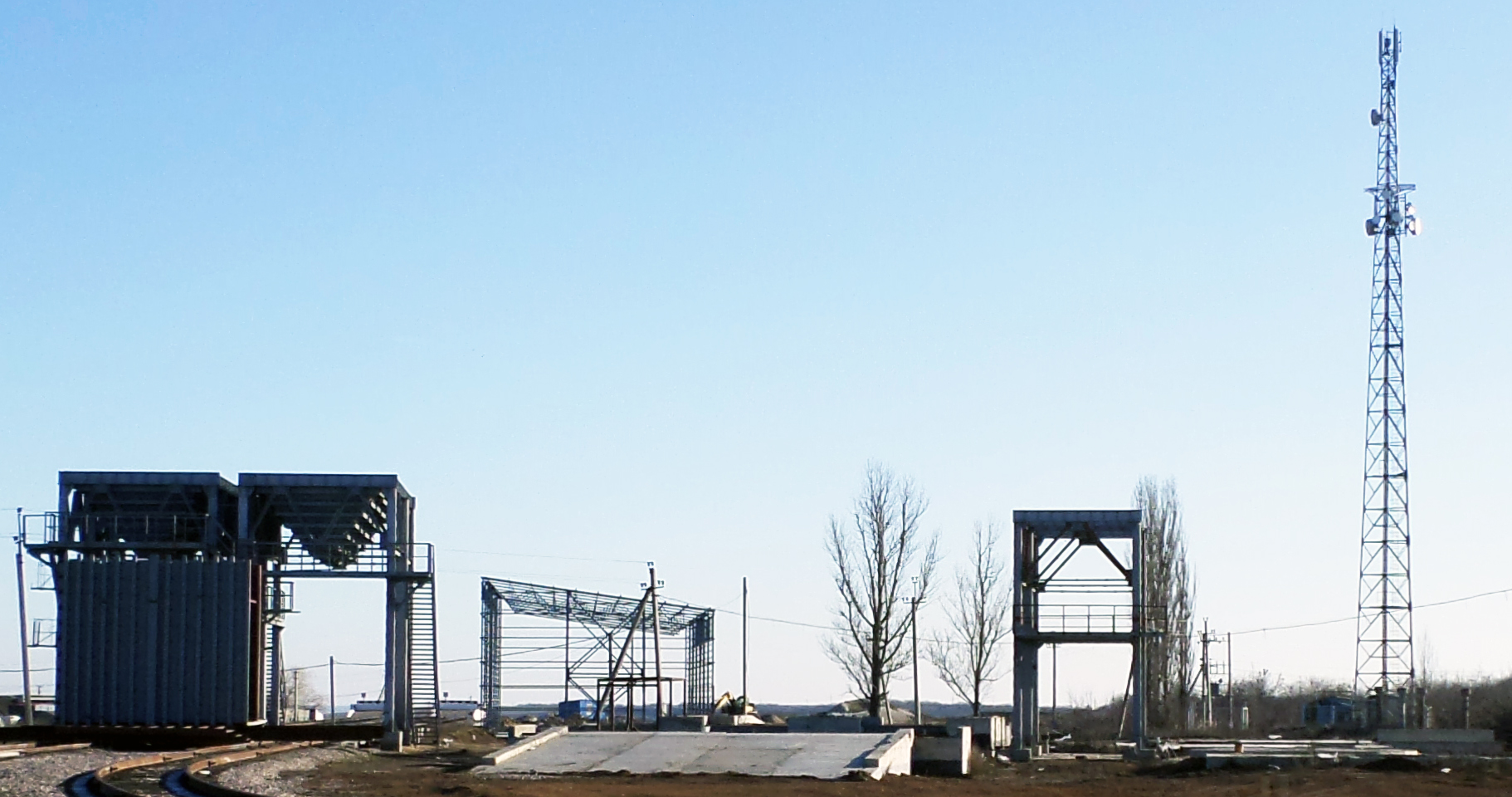 Source = Own work | Author = Eugene Zvarich